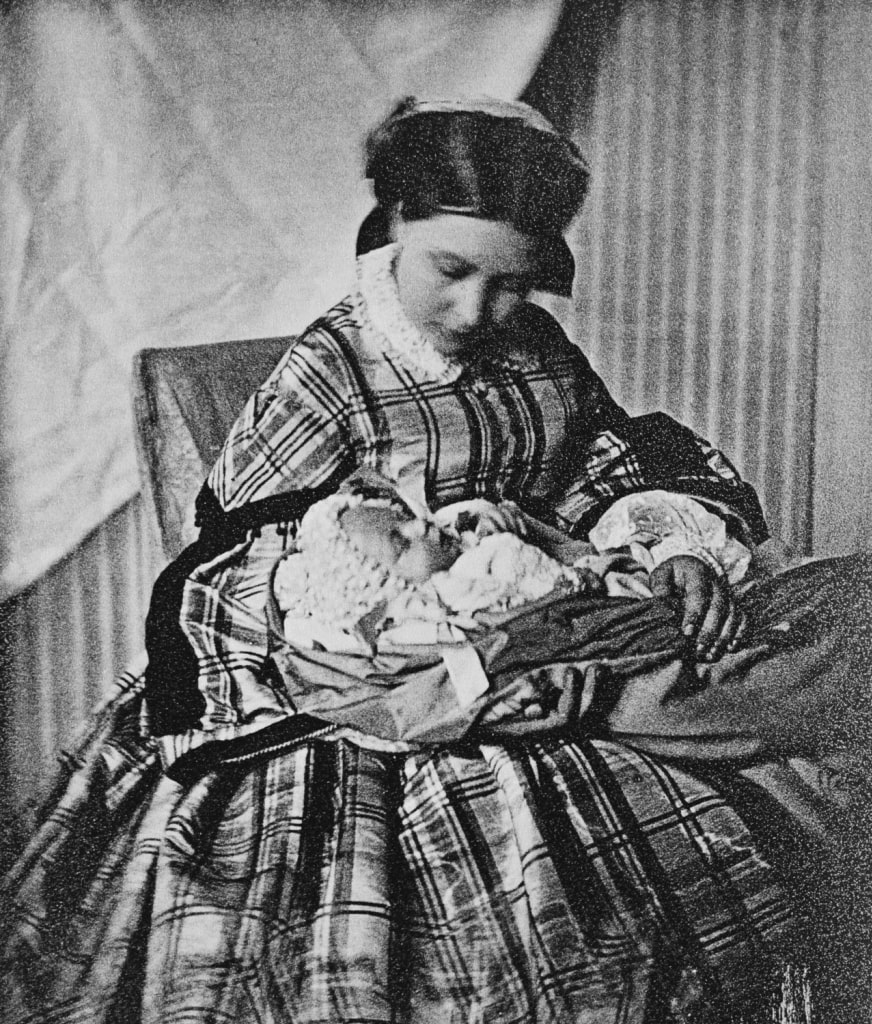 Vicky with the infant Prince Wilhelm, March 1859